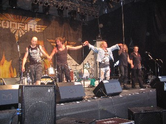 The German band, Bonfire, in 2009.